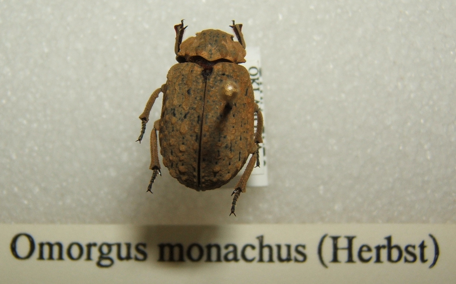 Omorgus monachus adult at the Texas A&M University Insect Collection in College Station, Texas